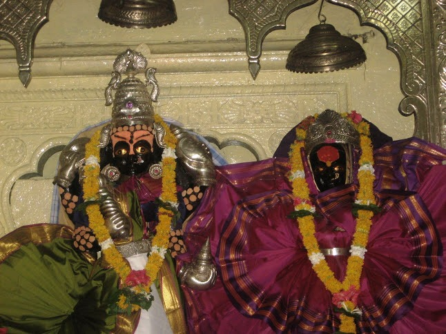 Lord Mohiniraj & Laxmi Newasa